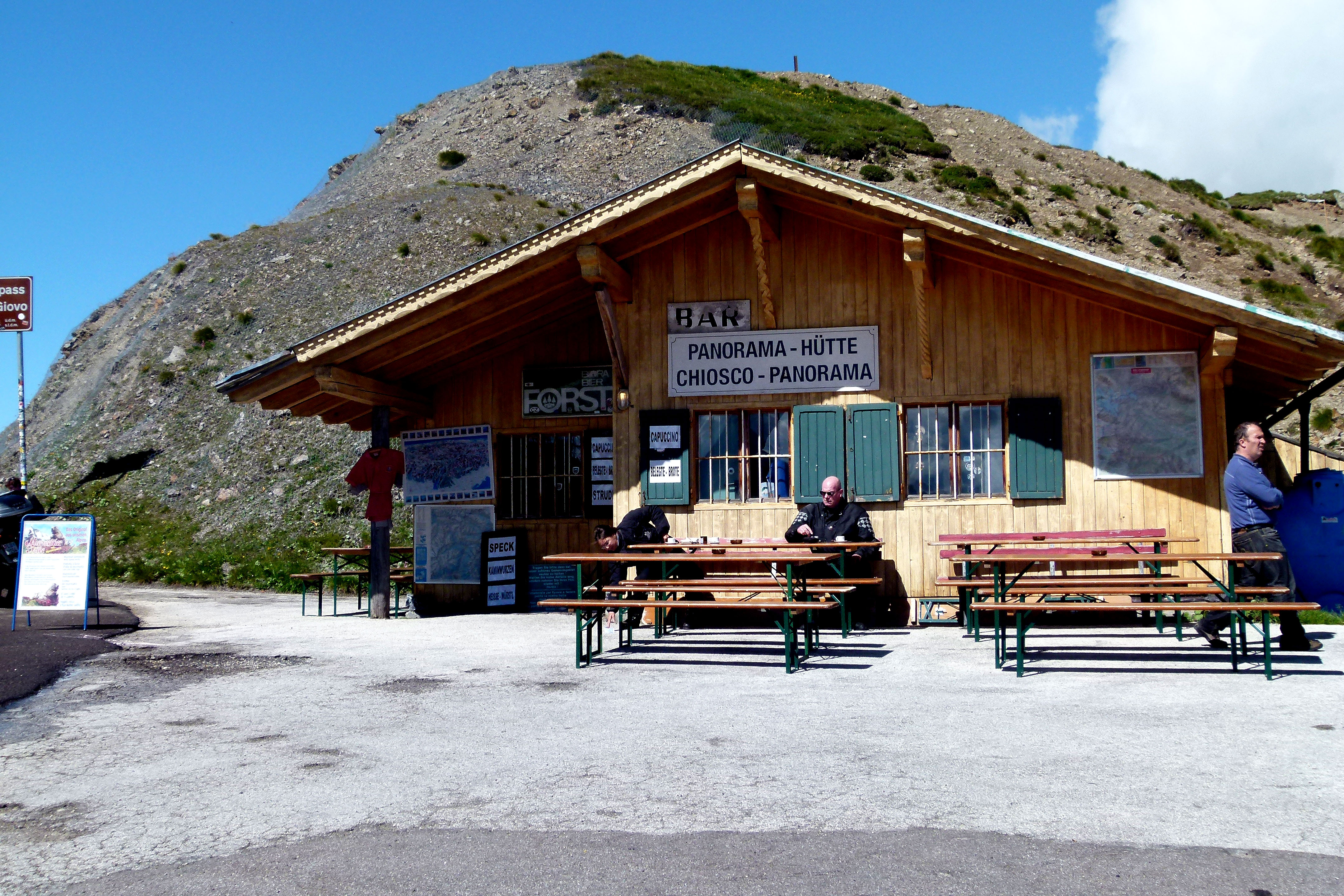 Jaufenpass, Italy